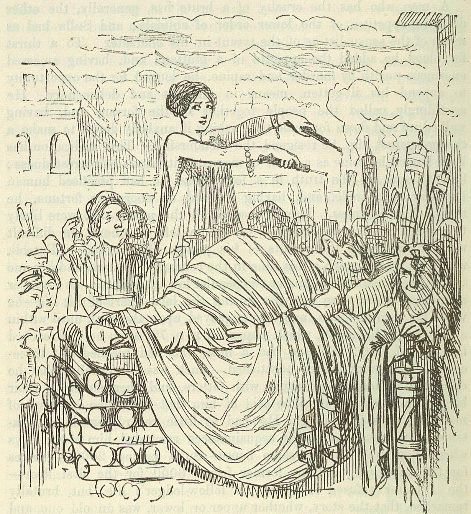 Image by John Leech, from: The Comic History of Rome by Gilbert Abbott A Beckett. Bradbury, Evans & Co, London, 1850s Funeral Pile of Sulla